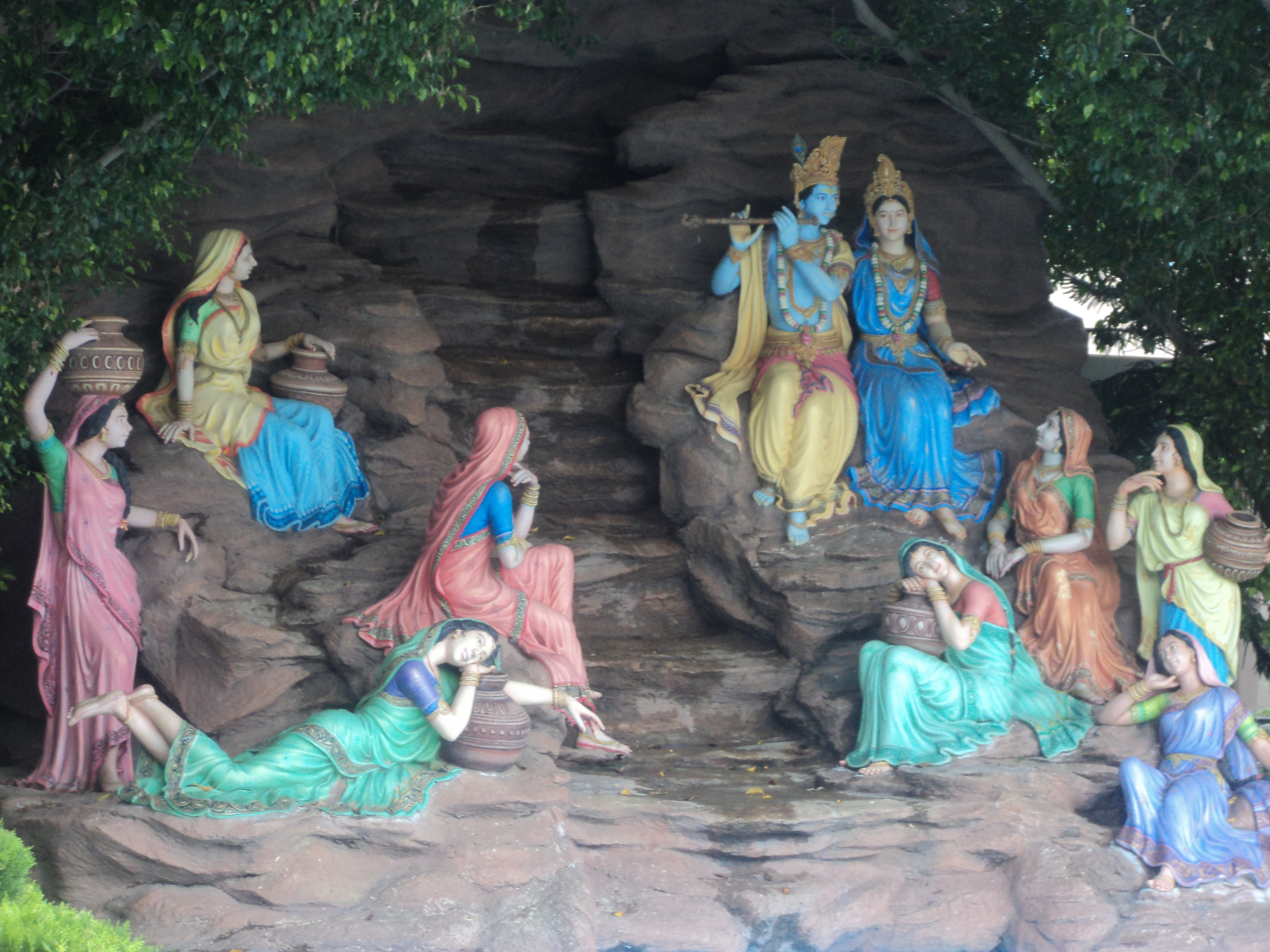 Ancient sculptures, carvings, images, bas-reliefs, inscriptions, stones and like objects